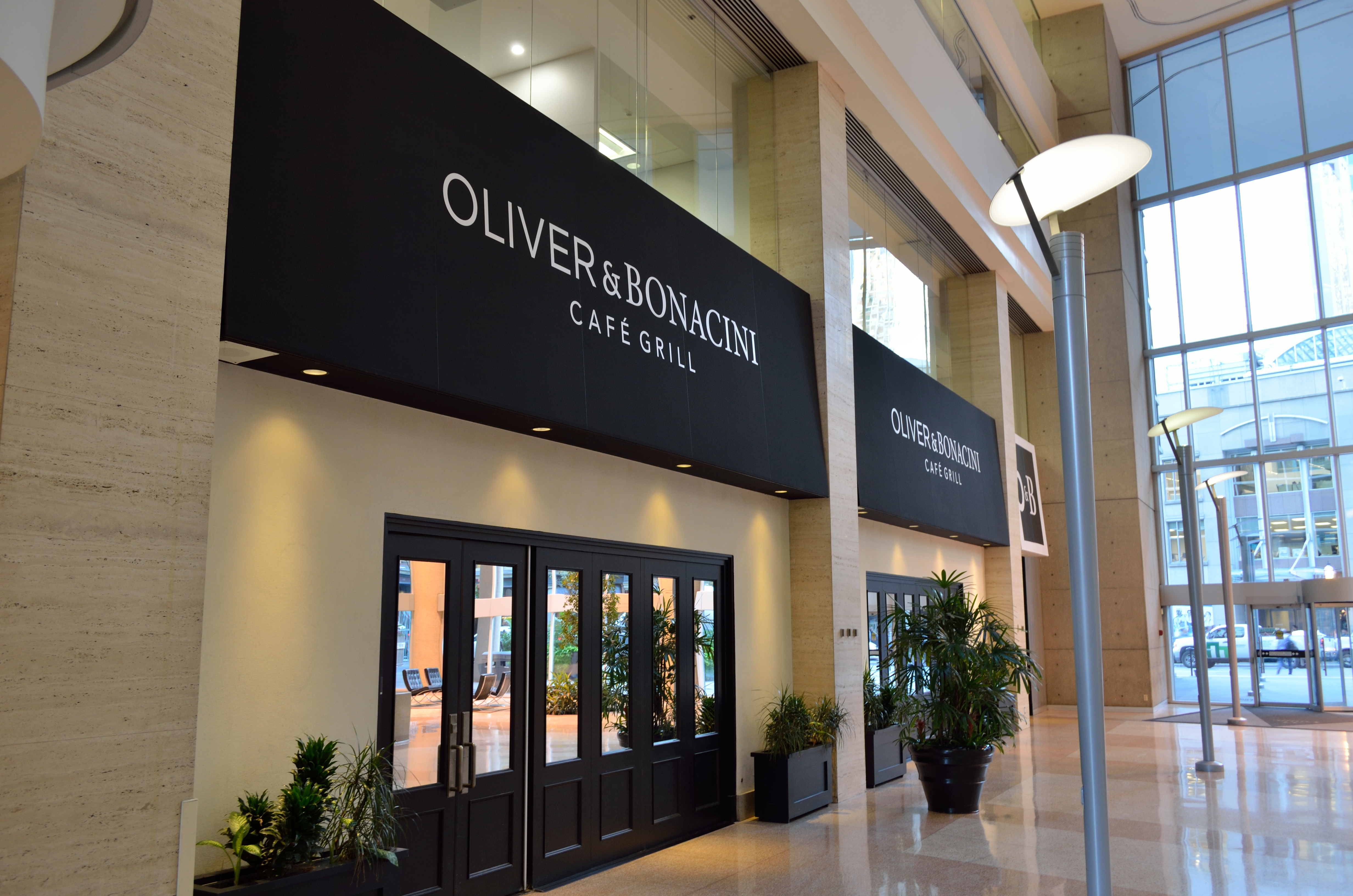 Oliver & Bonacini Café Grill. Address: 33 Yonge Street, Toronto